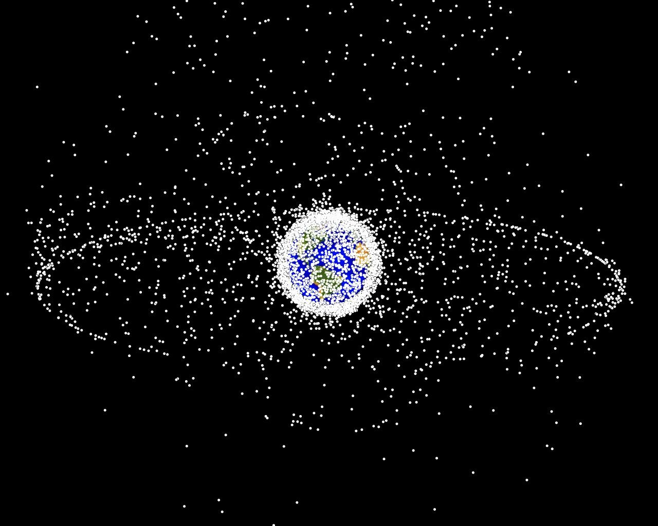 Debris plot by NASA. A computer-generated image of objects in Earth orbit that are currently being tracked. Approximately 95% of the objects in this illustration are orbital debris, i.e., not functional satellites. The dots represent the current location of each item. The orbital debris dots are scaled according to the image size of the graphic to optimize their visibility and are not scaled to Earth. The image provides a good visualization of where the greatest orbital debris populations exist. This image is generated from a distant oblique vantage point to provide a good view of the object population in the geosynchronous region (around 35,785 km altitude). Note the larger population of objects over the northern hemisphere is due mostly to Russian objects in high-inclination, high-eccentricity orbits.